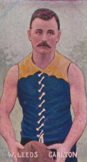 Cigarette card of Billy Leeds from the Sniders & Abrahams 1906 series